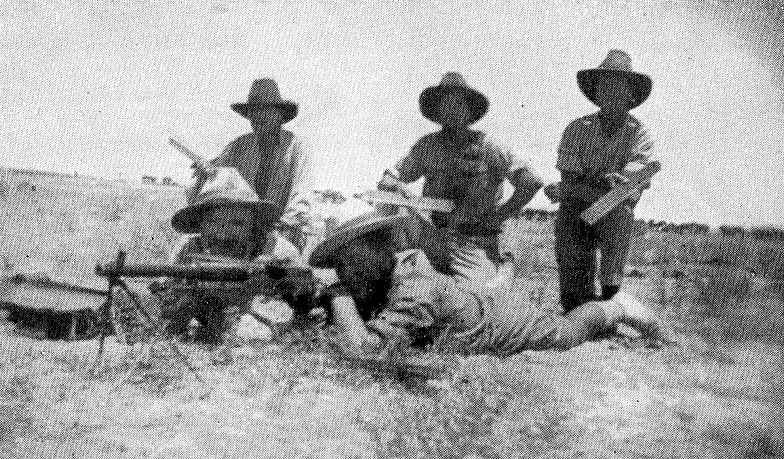 Wellington Mounted Rifles Hotchkiss gun and crew in 1917 Other information Government publication - official history